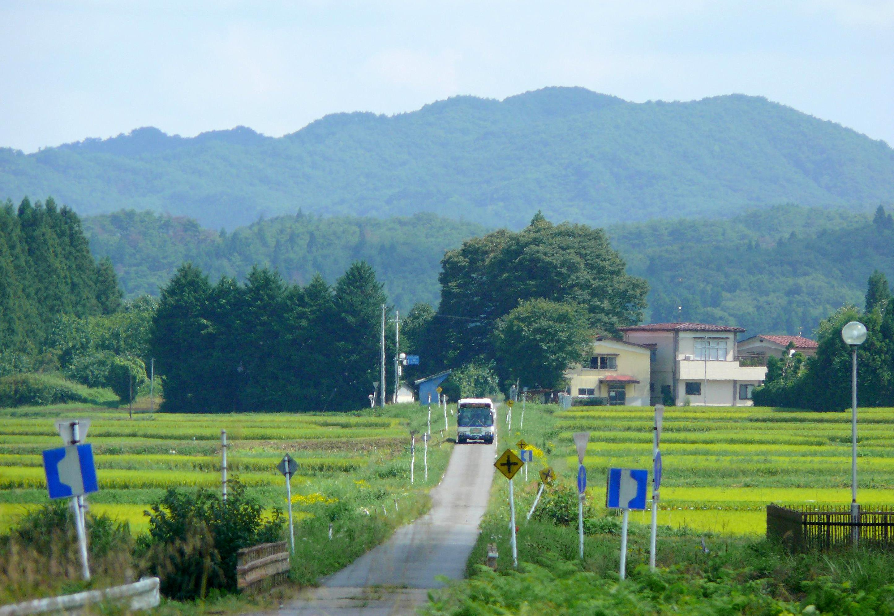 JR Bus Kanto Hakuhou Line（Fukushima prefecture, Japan）.